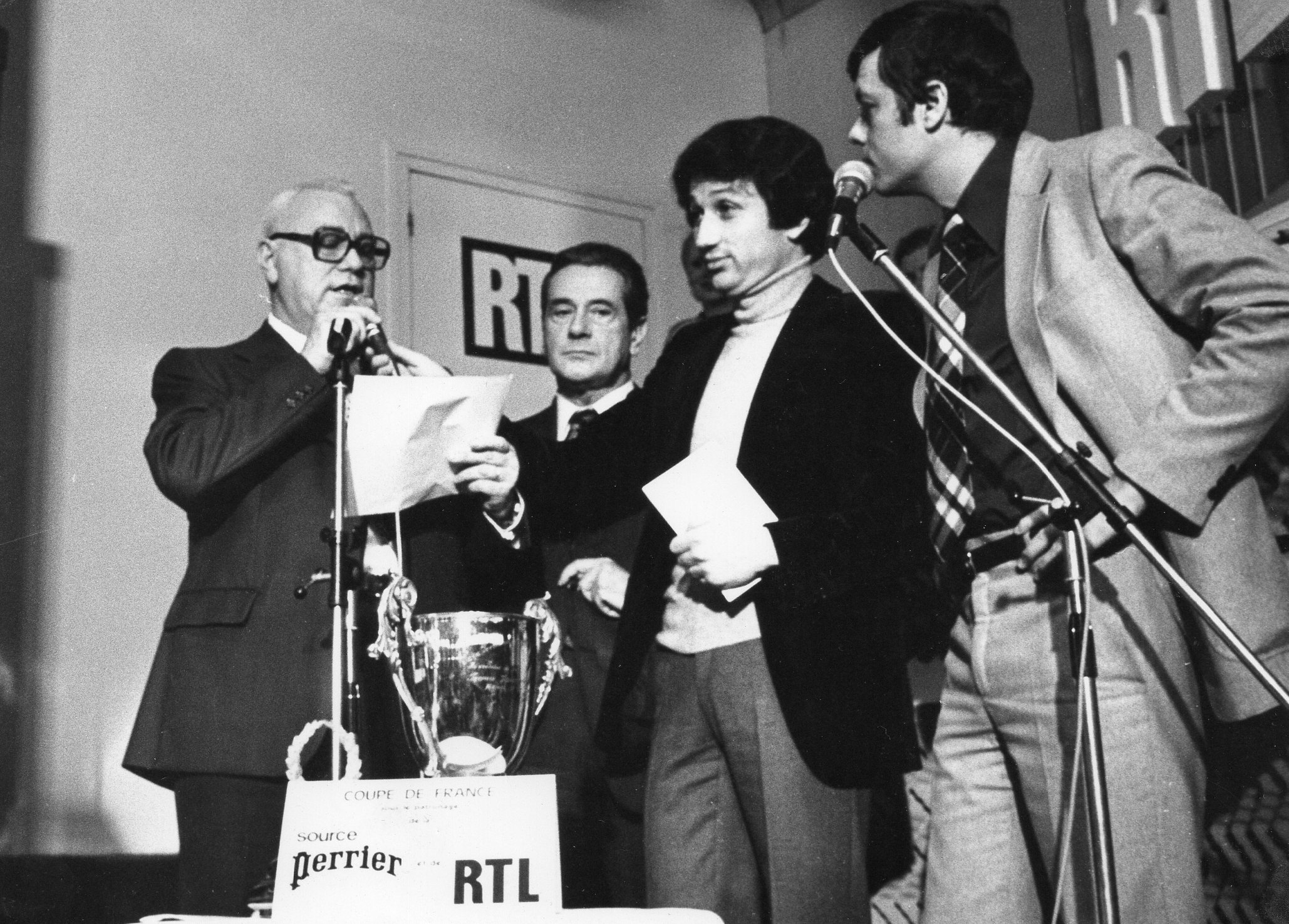 François Jouvenet, Michel Drucker, Fabrice